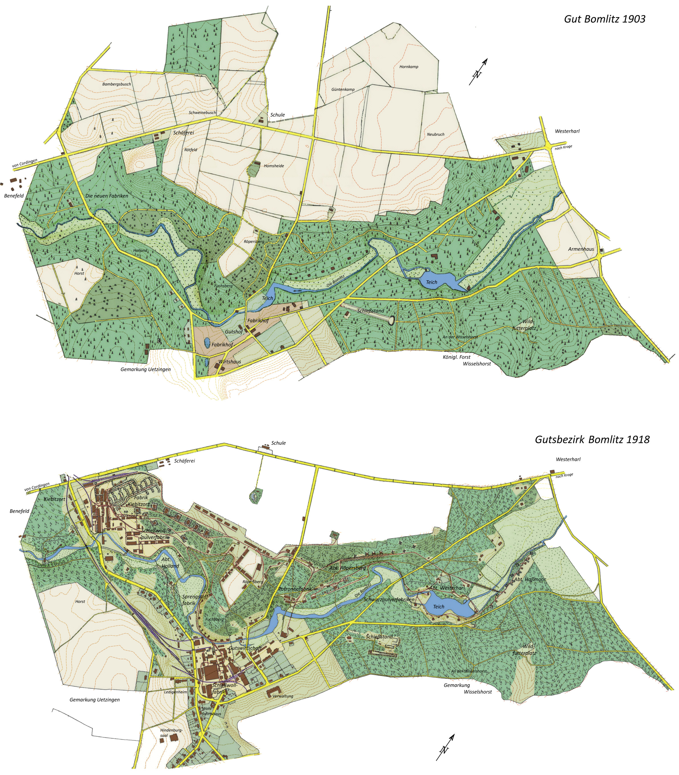 Maps of former Bomlitz estate, based on cadastral map released 1904 and a field map of Bomlitz estate released 1918. The old maps are redrawn and geometrically corrected if necessary and coloured. The contour lines are derived from the Prussian topographic map 1899 and actual topographic maps. Unknown